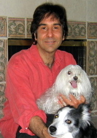 Cropped from :Image:Gary Francione.jpg.